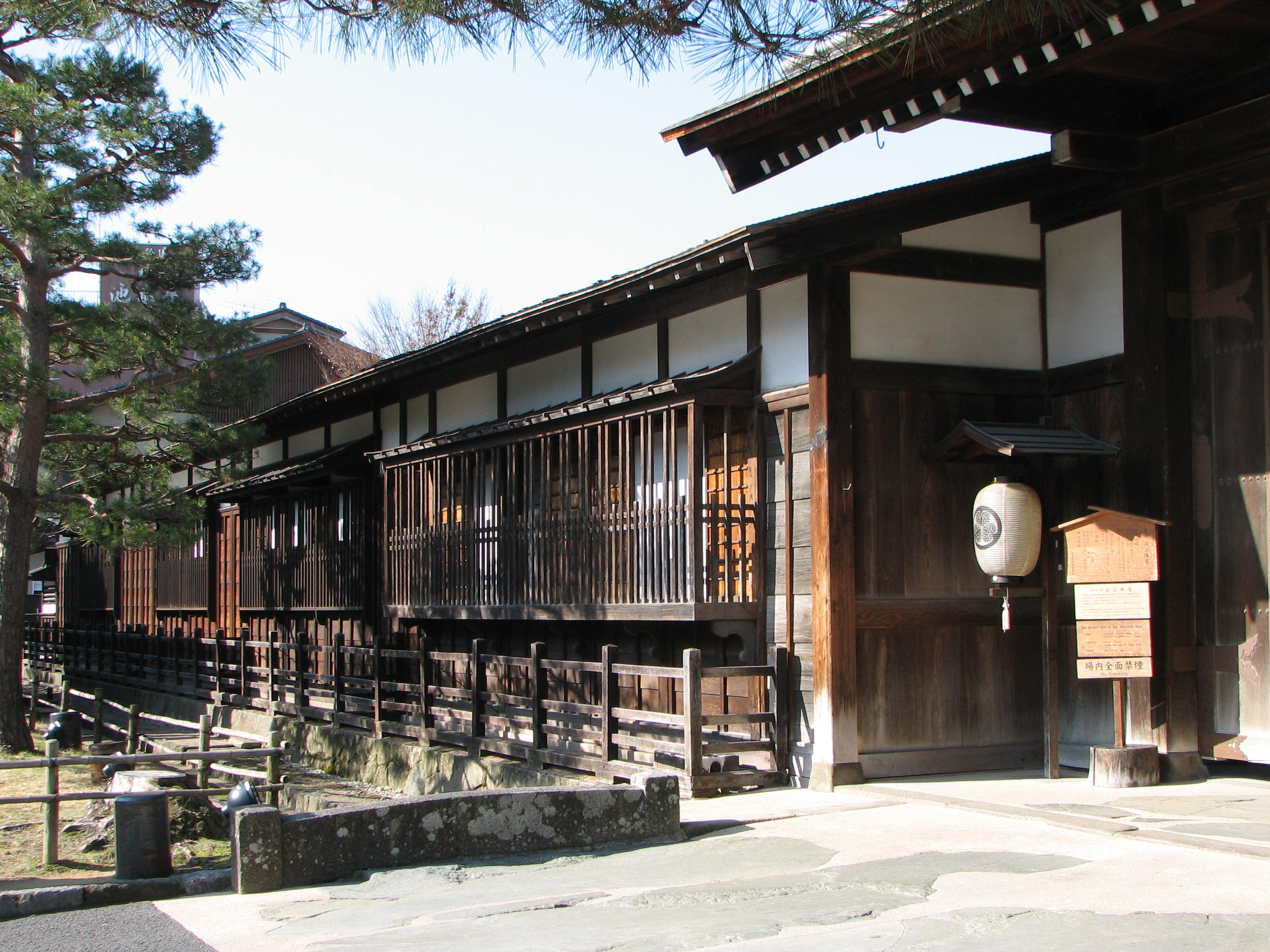 Takayama Jinya, Takayama, Gifu Prefecture, Japan